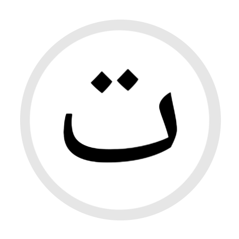 HS Letter (arabic alphabet)